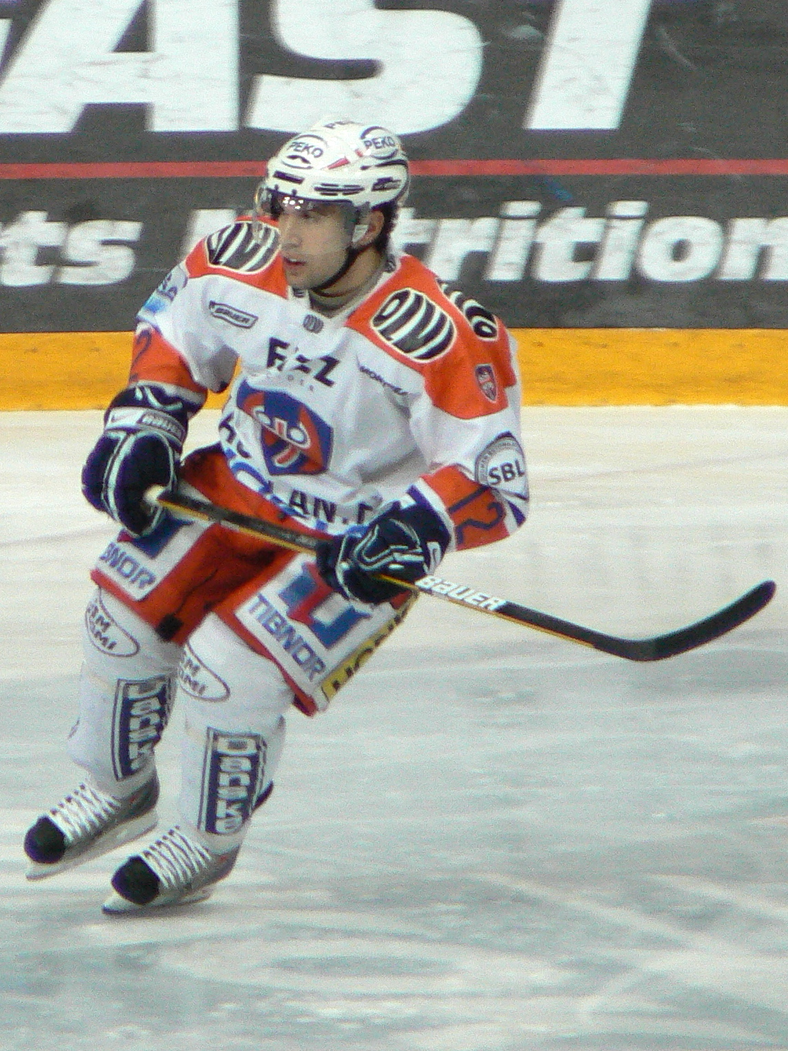 American ice hockey winger Steve Saviano playing for Tappara Tampere in an SM-liiga game in January 2009.